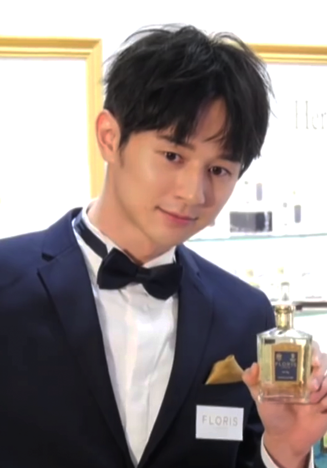 Derek Chang at Floris London event